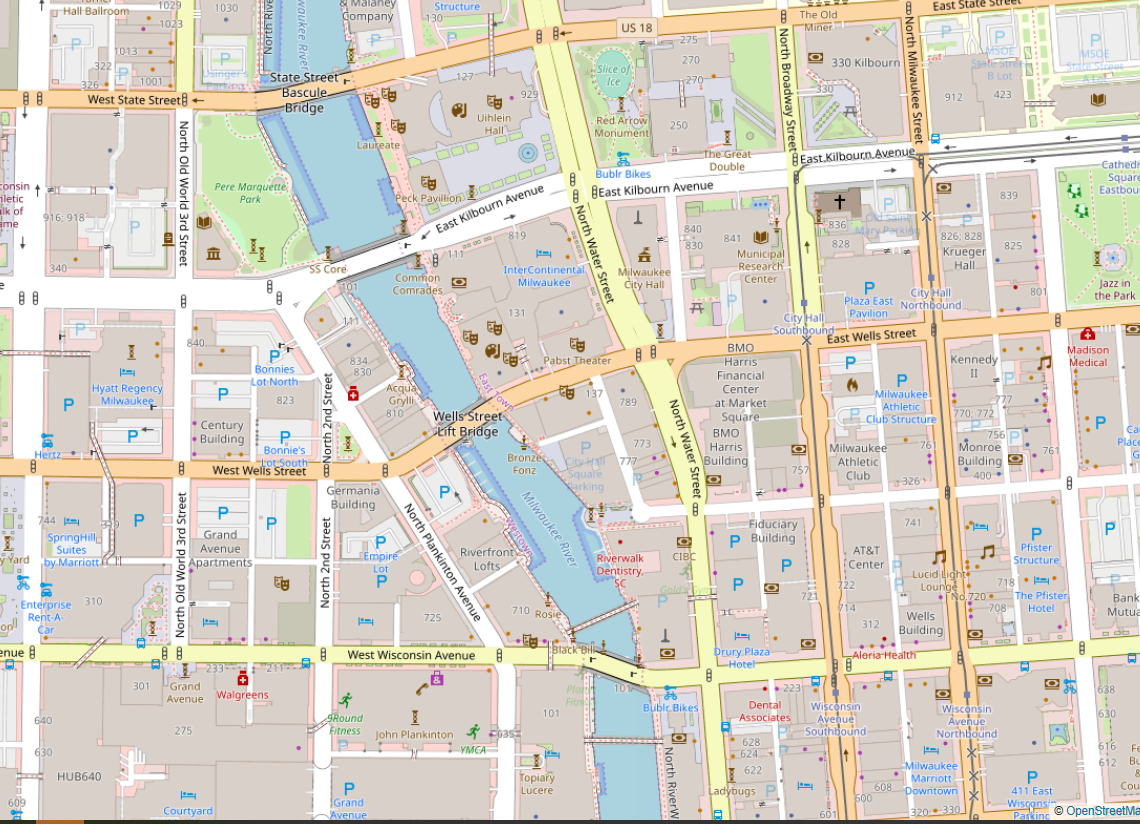 Open Street Map view of Milwaukee showing the Milwaukee river highlighting the difference in grid layouts between the east and west side and the unusual angle of the bridgesODBl